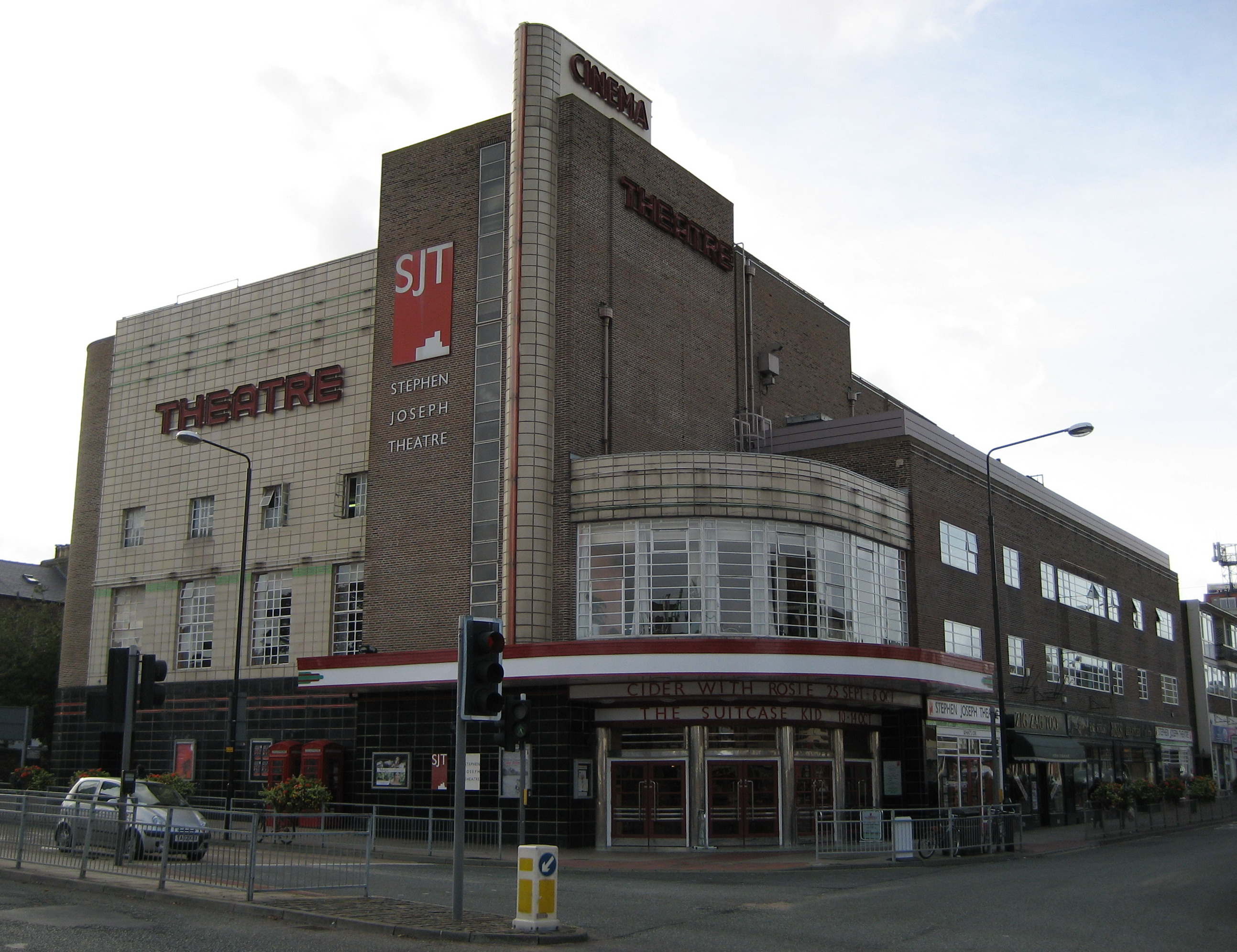 The Stephen Joseph Theatre in Scarborough. Play writer Alan Ayckbourn is artistic director of the Stephen Joseph Theatre in Scarborough